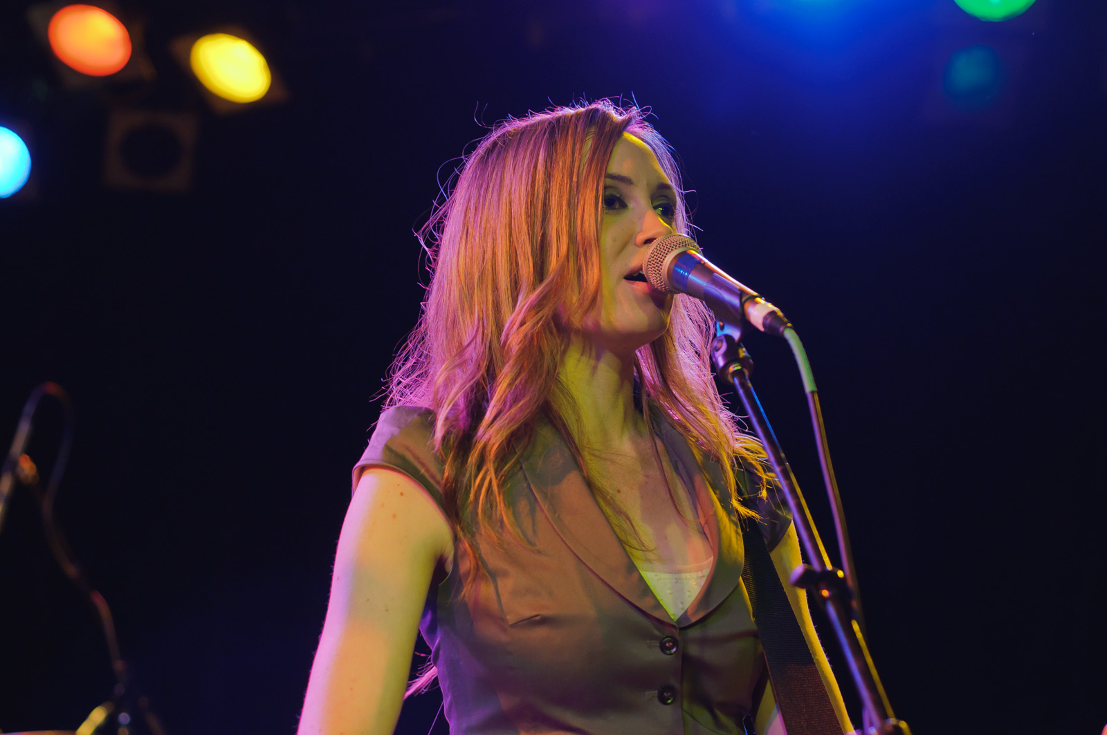 Katie Cole at the Roxy